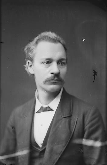 1 negative : glass, wet collodion, b&w ; 11 x 16.5 cm.